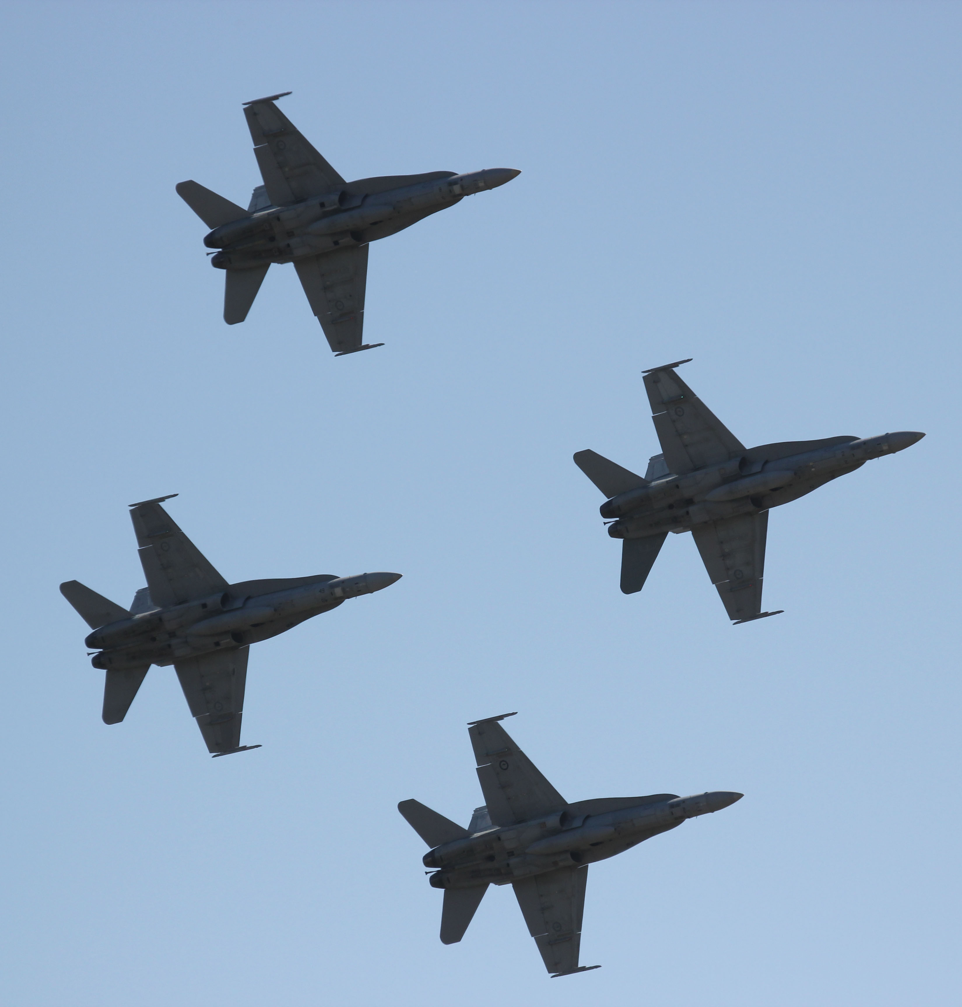 F/A-18 Classic Hornets doing a formation flyover at Avalon International Airshow 2011